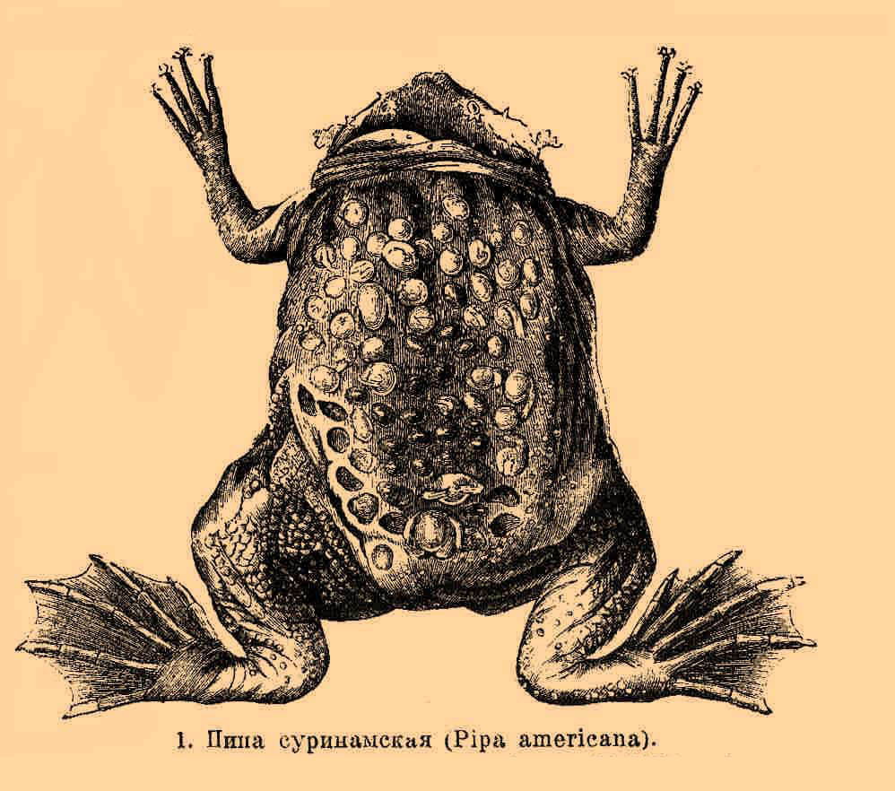 Illustration from Brockhaus and Efron Encyclopedic Dictionary(1890—1907)